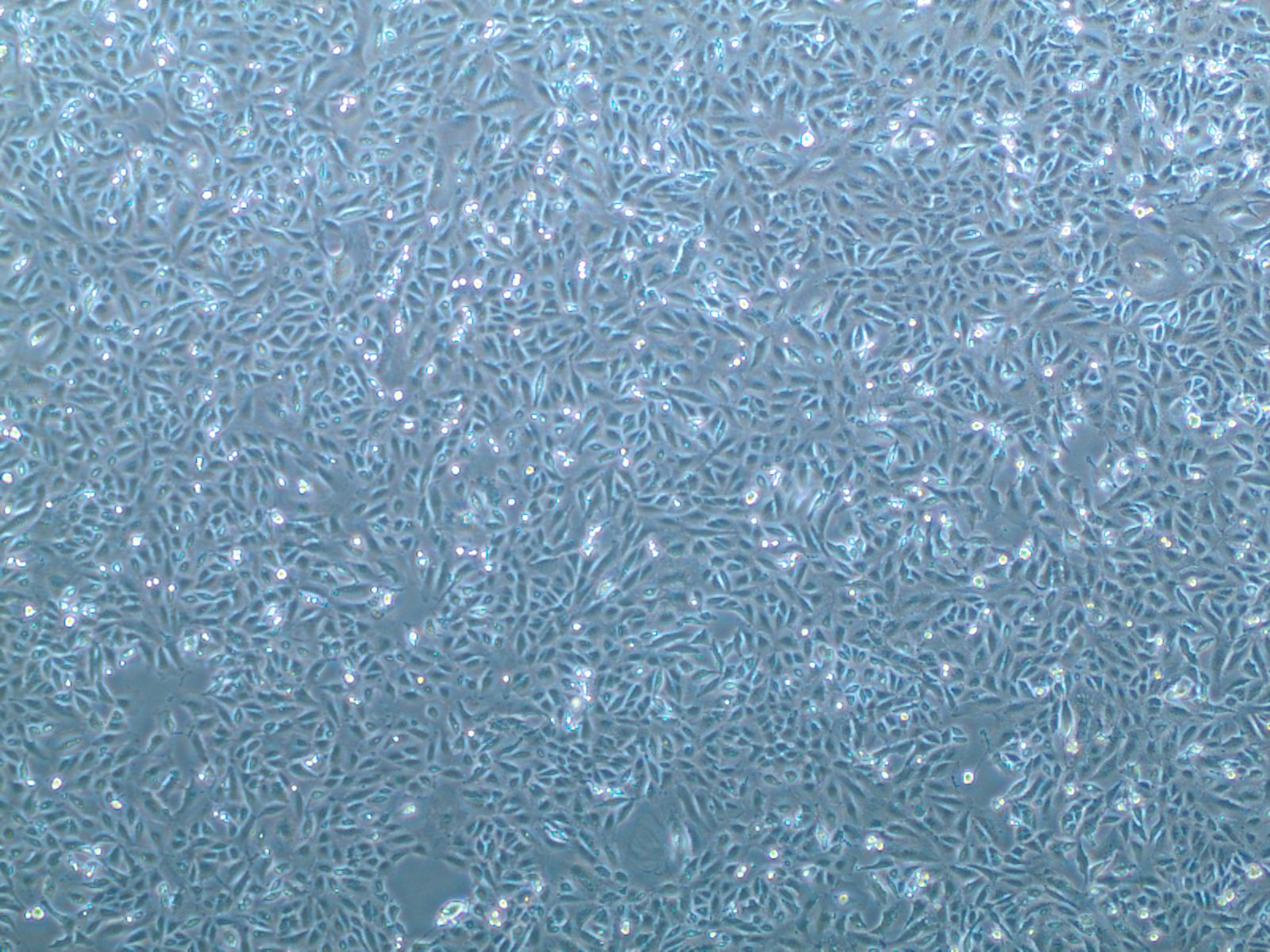 Snu449 cells at about 100 per cent confluency